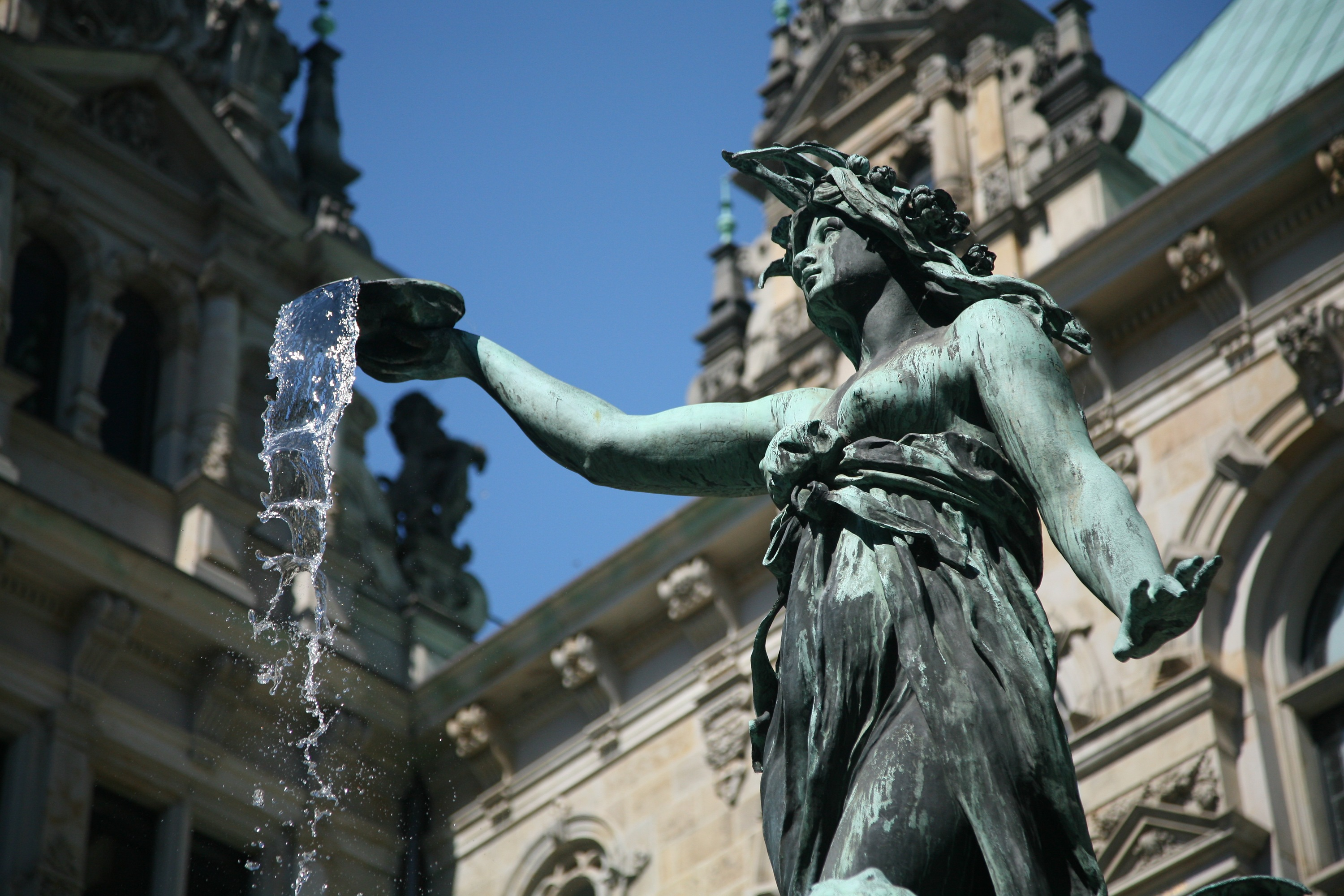 Hygieia fountain in the city hall courtyard, Hamburg, Germany